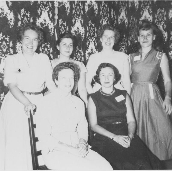 Participants at 1953 Society of Women Engineers board meeting, Detroit Michigan. (seated, l to r) Katharine Stinson, Miriam Gerla. (standing, l to r) Isabelle French, Sophia Voskerchian, Mary Louise Pottle, Lois Graham McDowell.